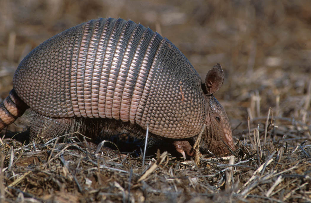 Armadillo Dasypus novemcinctus, Sequoyah National Wildlife Refuge, OK, USA